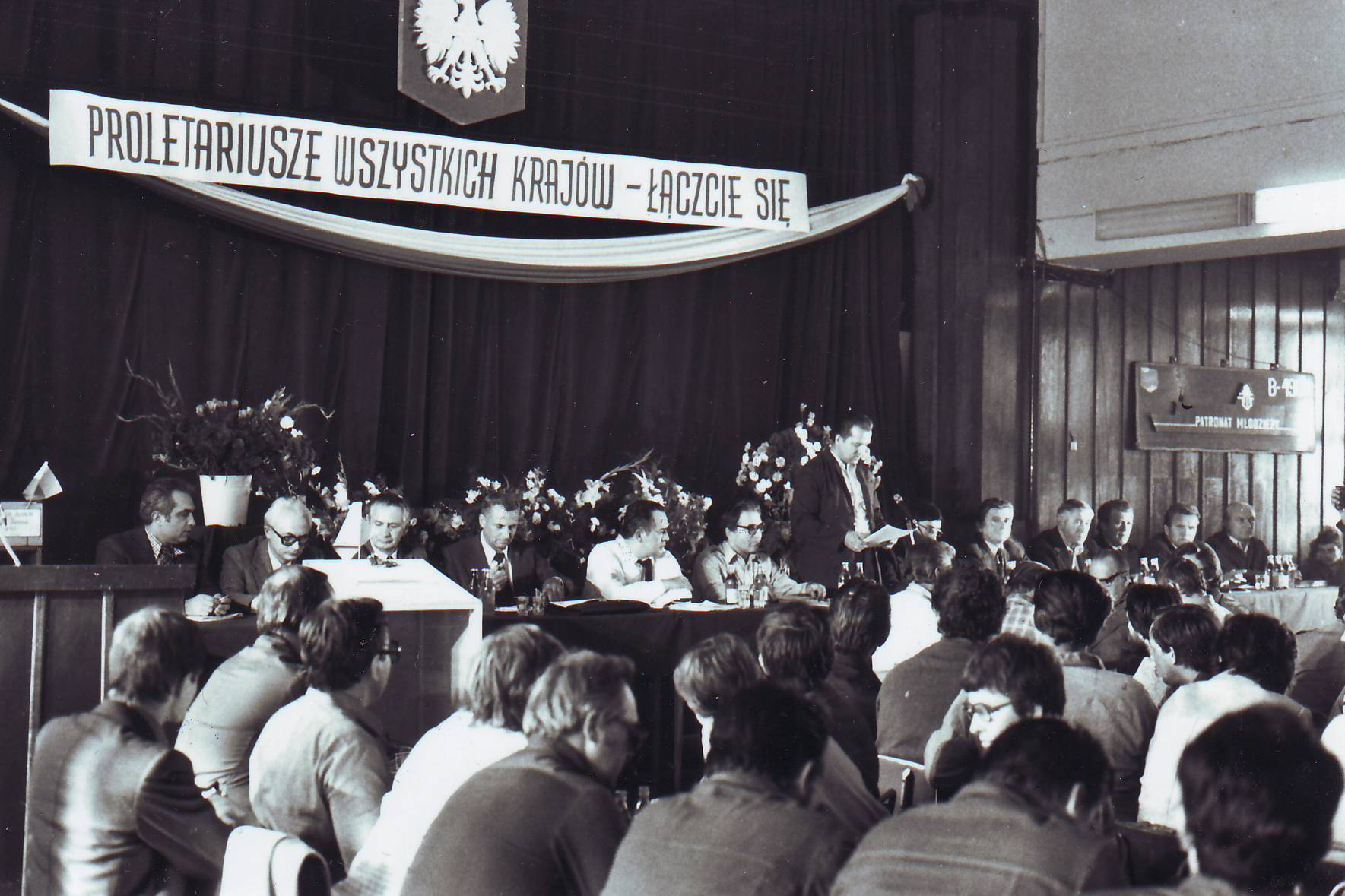 Strike Coordination Committee and Government Commission in Szczecin during the September 1980 crisis in Poland. Marian Jurczyk is standing.